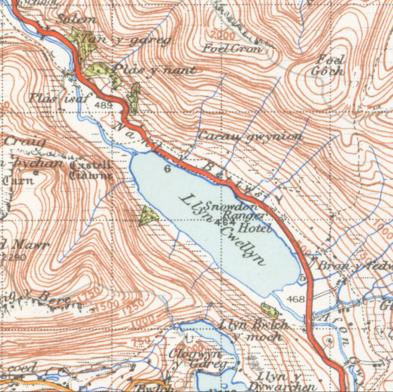 Map of Llyn Cwellyn from 1947. Scale 1 inch to the mile 600DPI Sheet 107 "Snowdon"